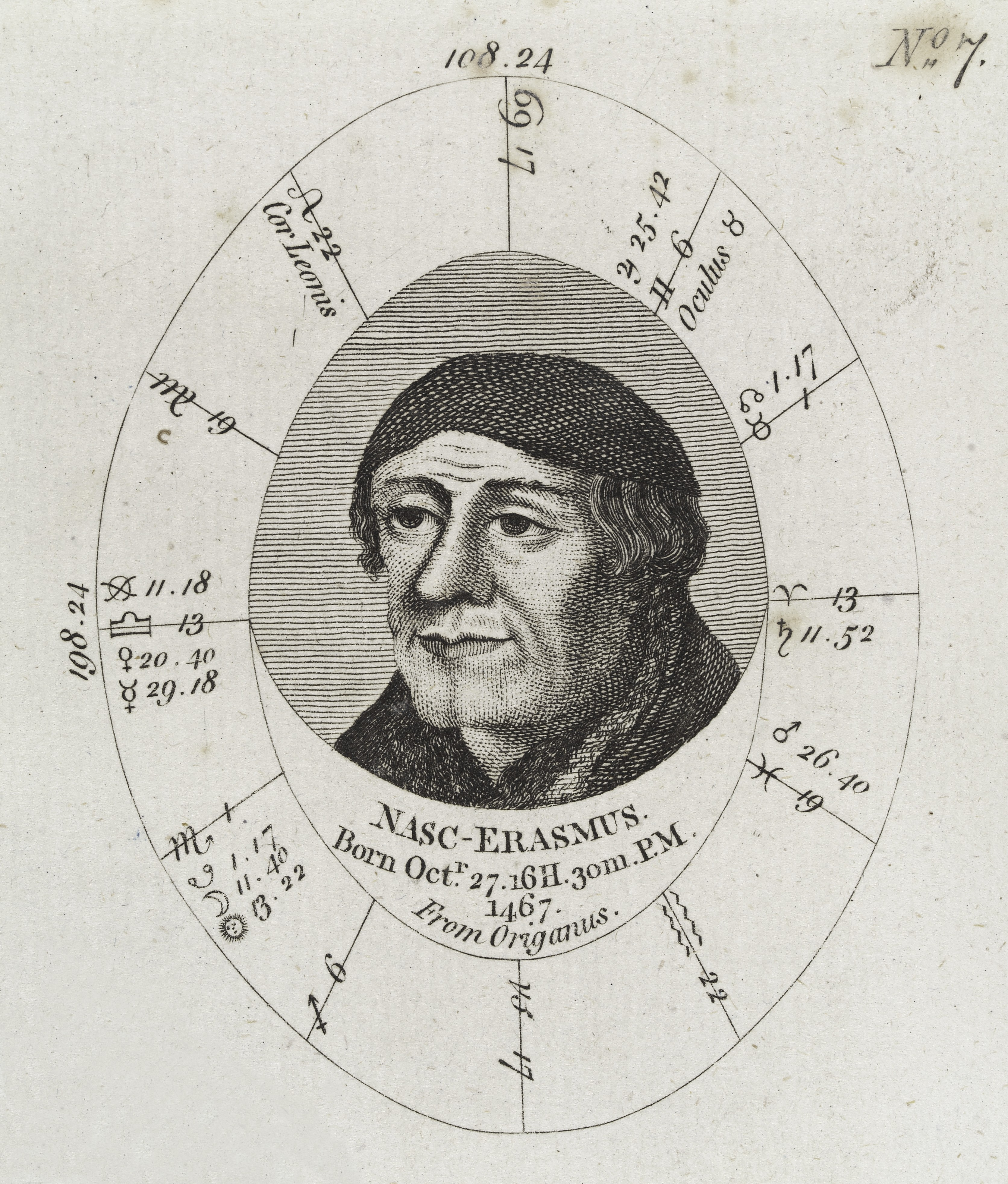 Astrological birth chart for Erasmus Rare Books Keywords: Desiderius Erasmus